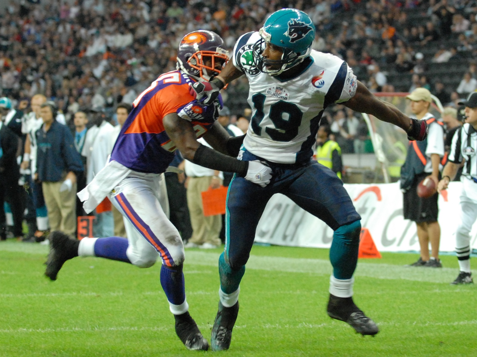 WR Marcus Maxwell in World Bowl XV in Frankfurt, Germany